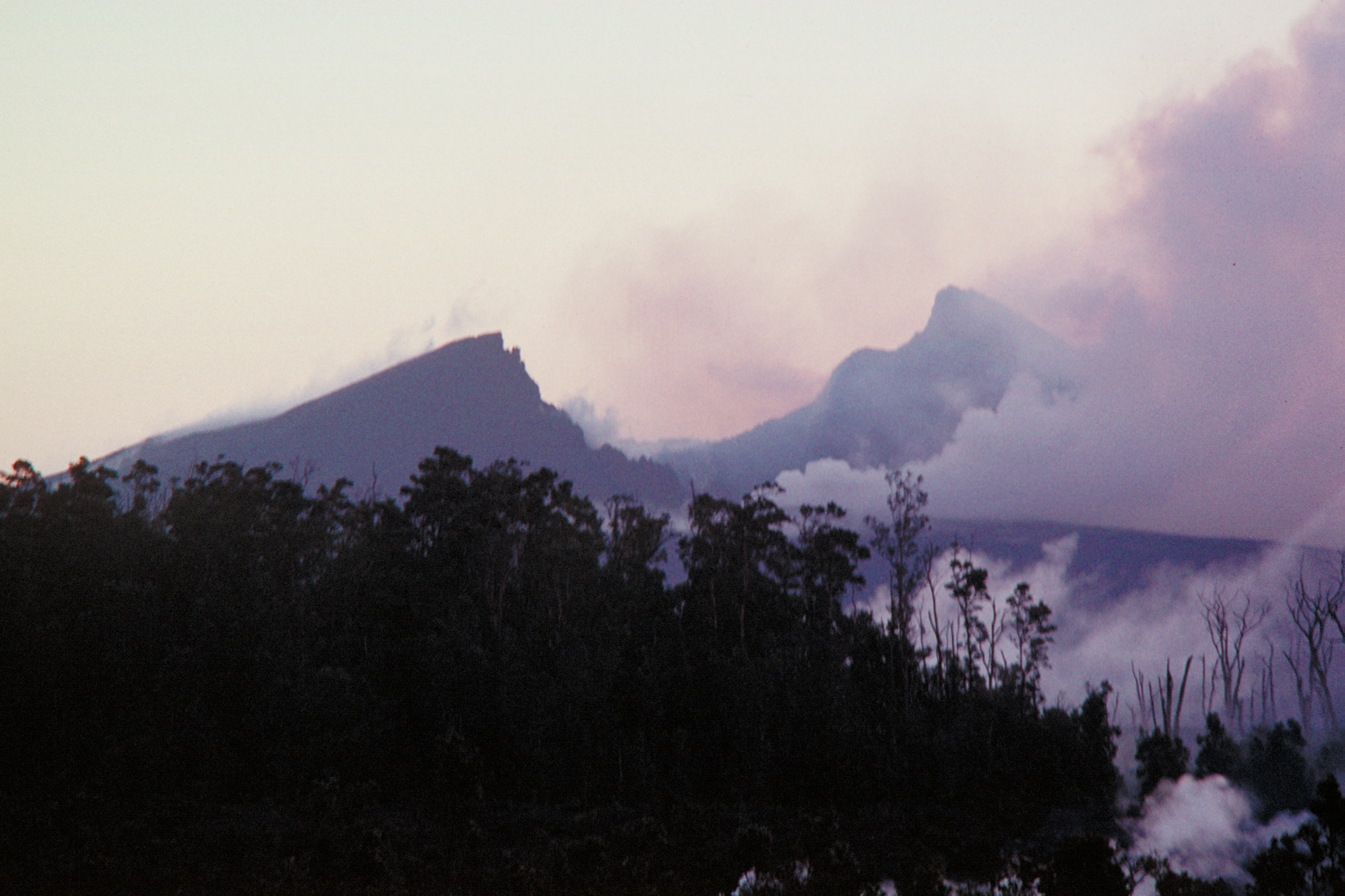 Aerial view of “west gap” in the Pu‘u ‘O‘o cone that formed on the night of January 29, 1997. The lava pond in the Pu‘u ‘O‘o crater drained, the crater floor collapsed, and the west flank of the cone caved in, creating a gap 150–200 m wide. The collapse resulted in a crater 210 m deep and produced a spectacular blanket of red rock dust.